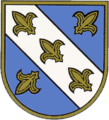 Coat of arms of Enzesfeld-Lindabrunn, Lower Austria